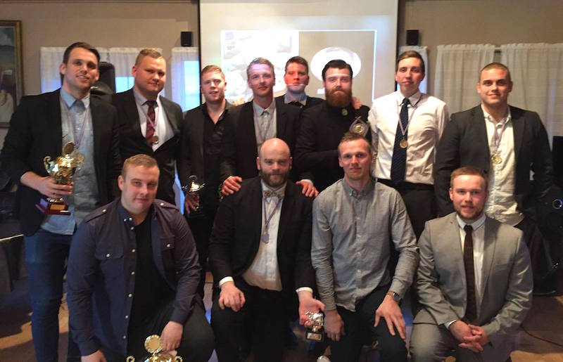 Verðlaunahafar á lokahófi 2016